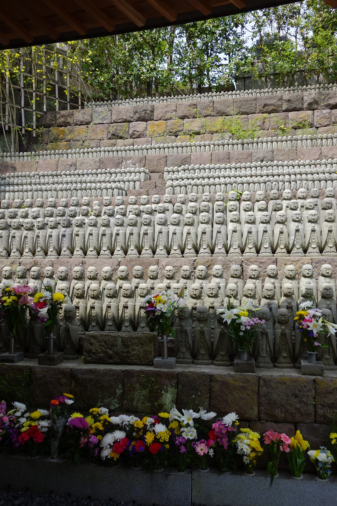 Jizō on the grounds of Hase-dera temple in Kamakura, Japan